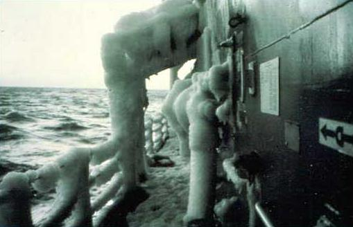 Iced US Navy ship